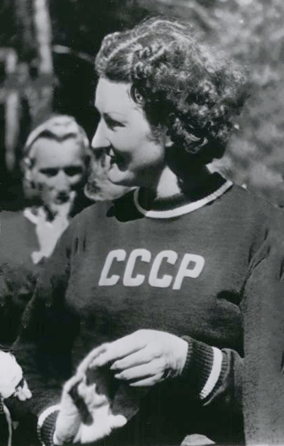 1952 Press Photo Olympic Shot Putter Jim Fuchs Shows Hand to Nina Dumbadse